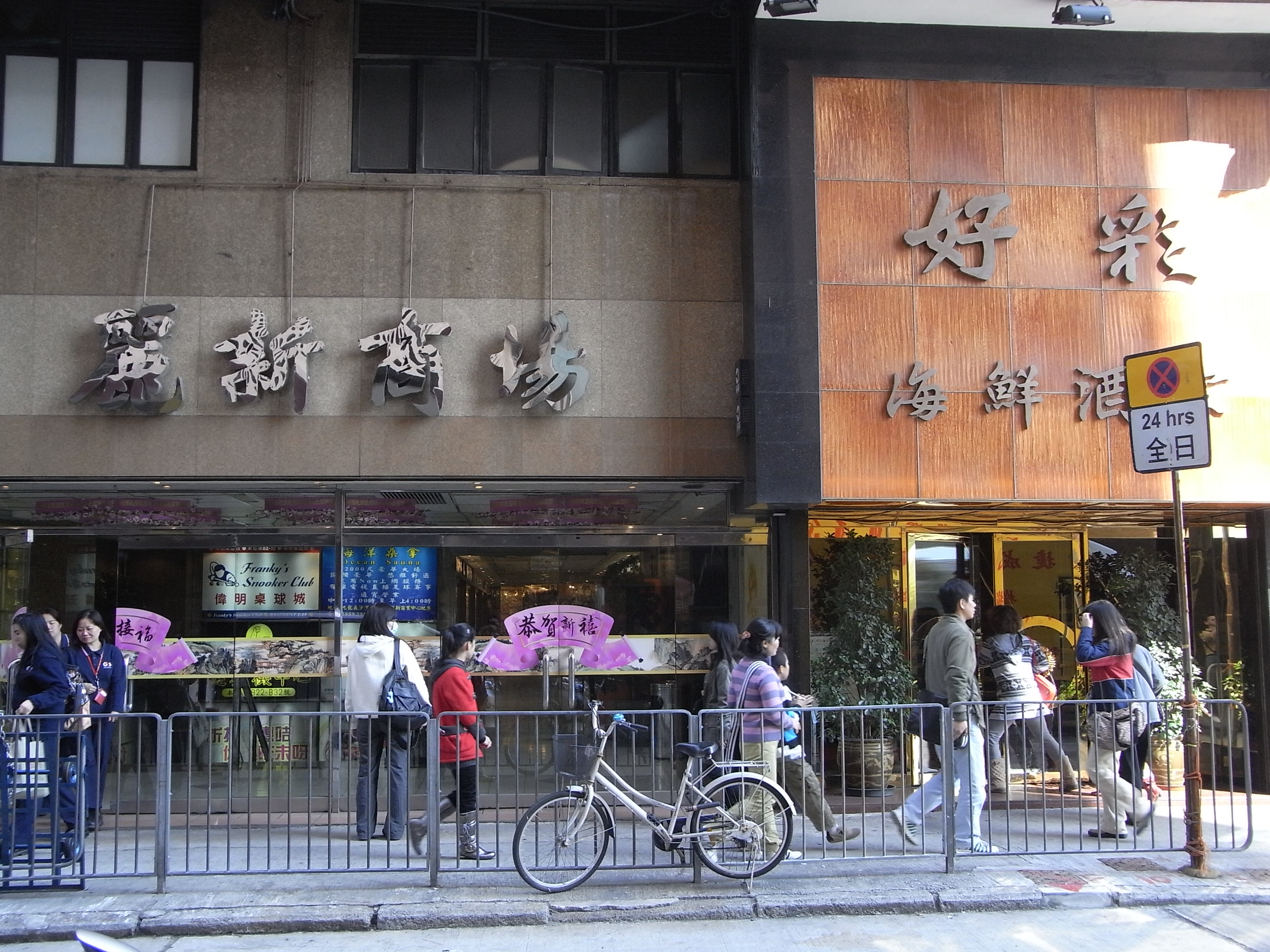 長沙灣 光昌街 麗新商場 好彩海鮮酒家